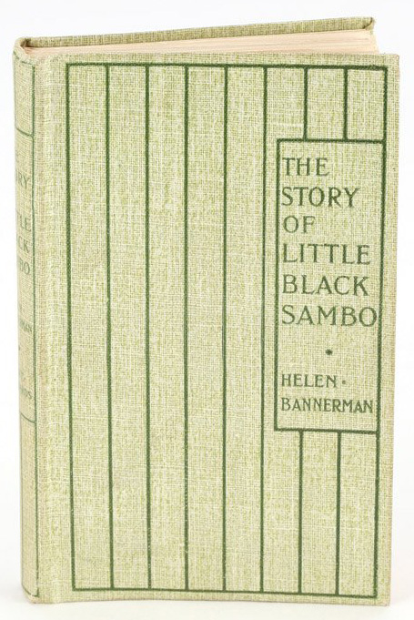 Front cover of the first edition of the 1899 book The Story of Little Black Sambo. According to the html web page image shows "The Story of Little Black Sambo, First Edition... London: Grant Richards, 1899. 16mo. First Edition. Publisher's original pale green cloth, lettered and decorated in dark green. ..." Uploaded image was cropped from the original image at to reduce white space around the book. Image is consistent with description and photograph of first edition cover in: Schiller, Justin G. (Autumn 1974) "The Story of Little Black Sambo." The Book Collector, volume 23, issue 3, pages 381–386.